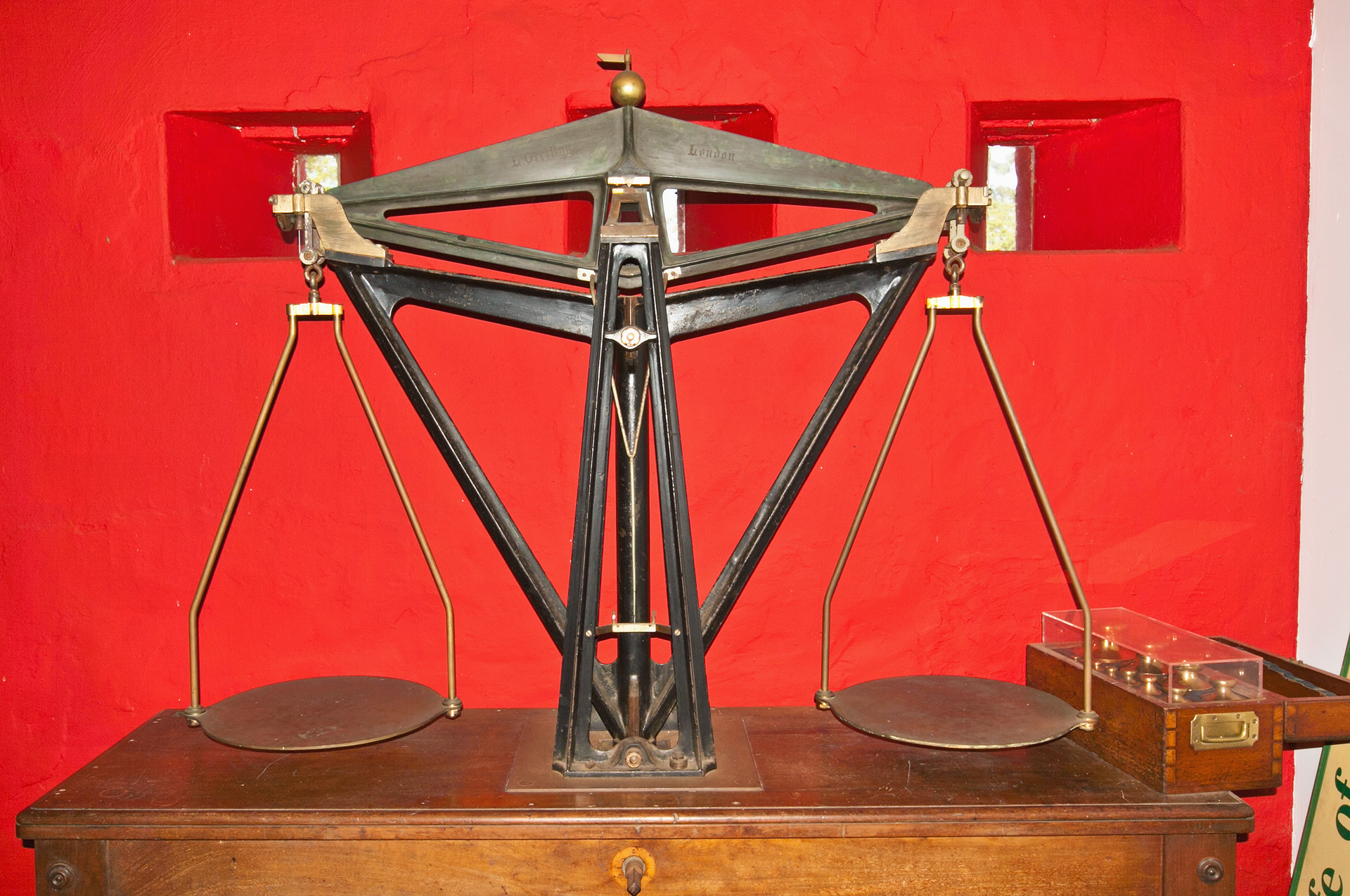 an old scale in the museum at the fort This media shows a South African Protected Site with SAHRA file reference 9/2/408/0001.